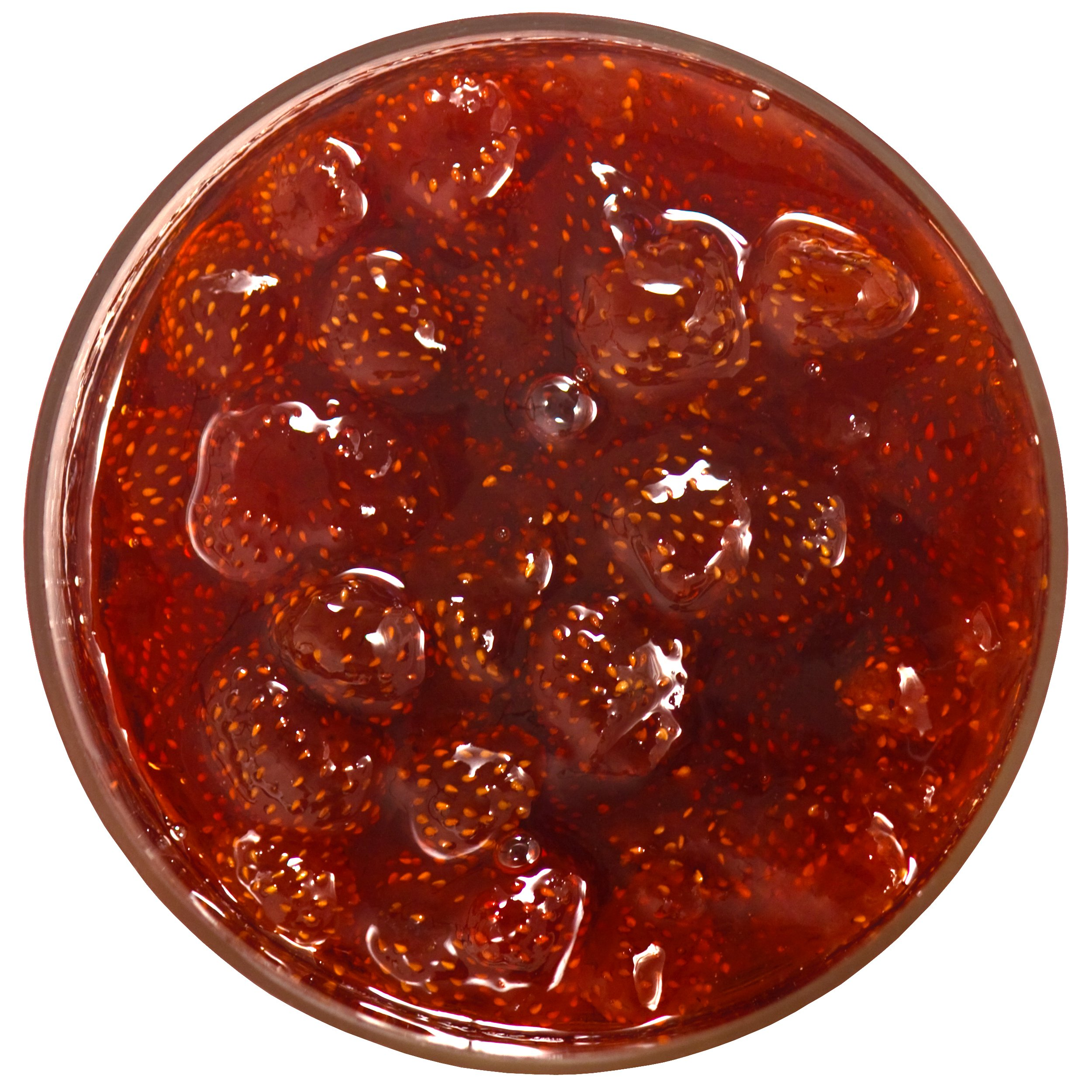 Slatko with woodland (wild) strawberries, Serbian cuisine, mostly served with a glass of water to guests in Serbian homes, šumske jagode, fraises des bois, Wald-Erdbeeren, Vlasotince, south-east Serbia